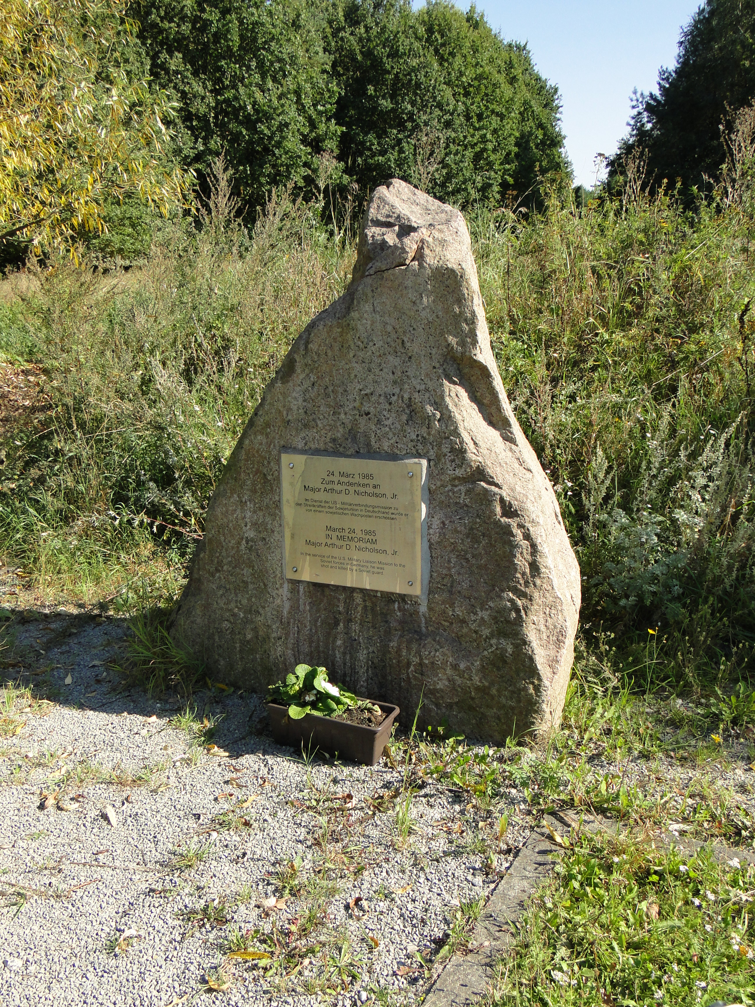 Memorial for Arthur D. Nicholson on the Bundesstraße 191 in Karstädt, district Ludwigslust-Parchim, Mecklenburg-Vorpommern, Germany